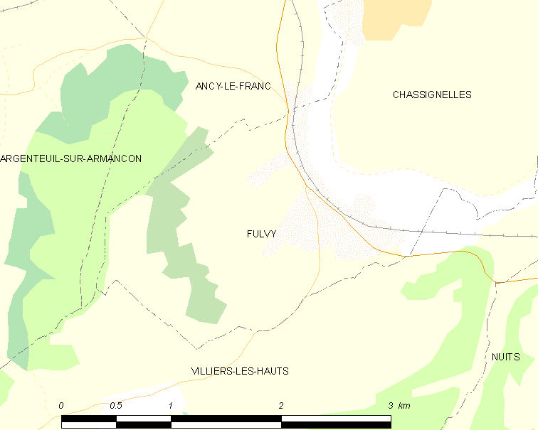 Map of French municipality Fulvy